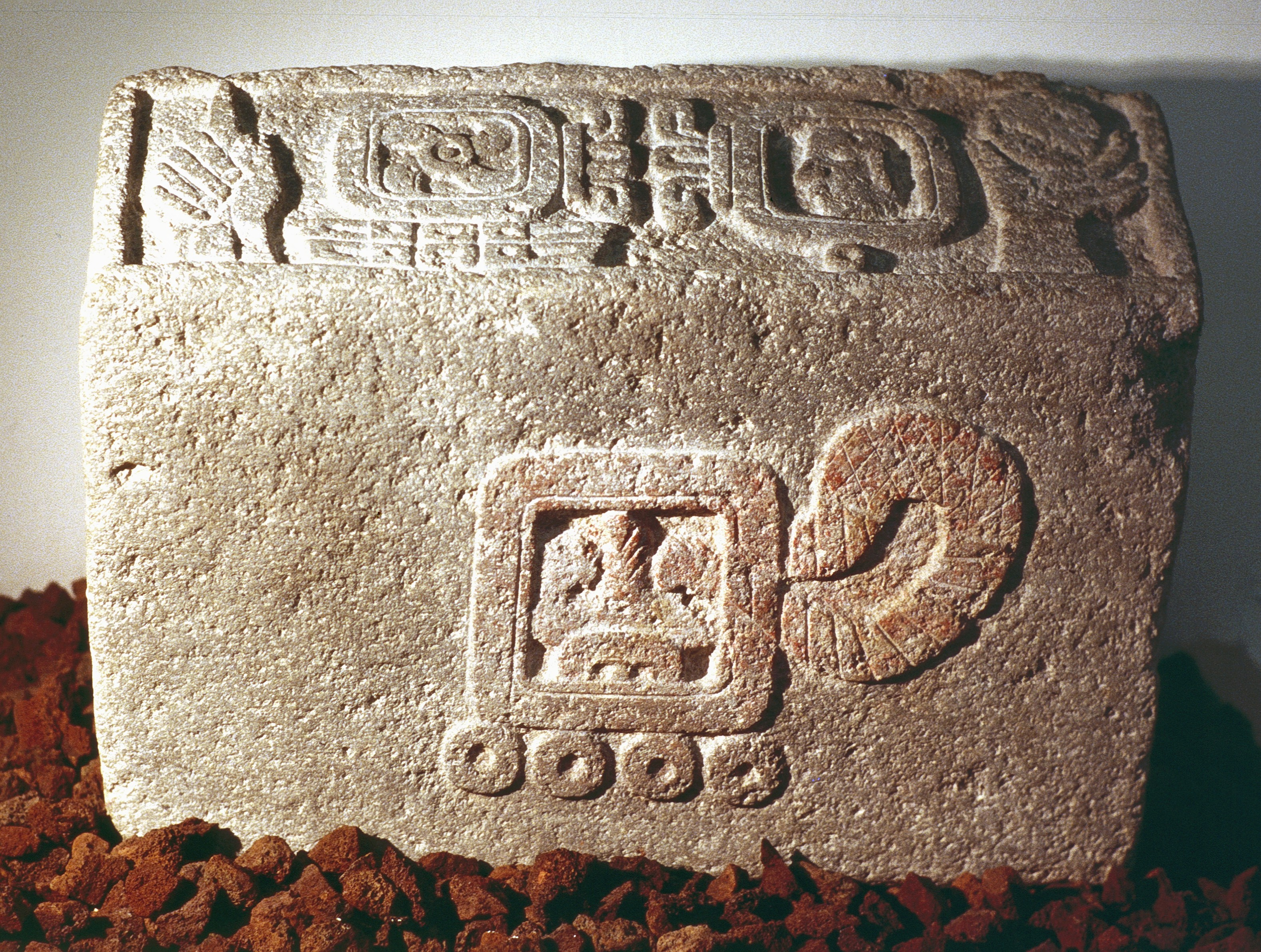 Xochicalco, Morelos, Mexico: monument with hieroglpyhic dates